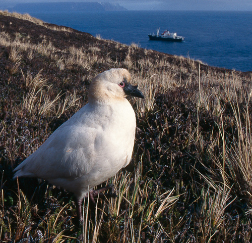 Black-faced Sheathbill